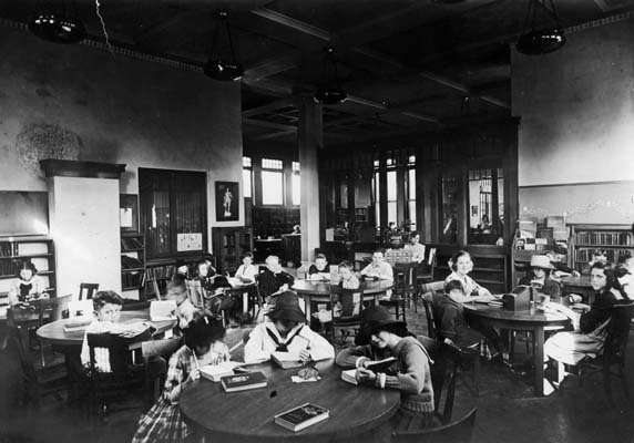 Vermont Square Branch Library (Children's Reading Room), Los Angeles, California